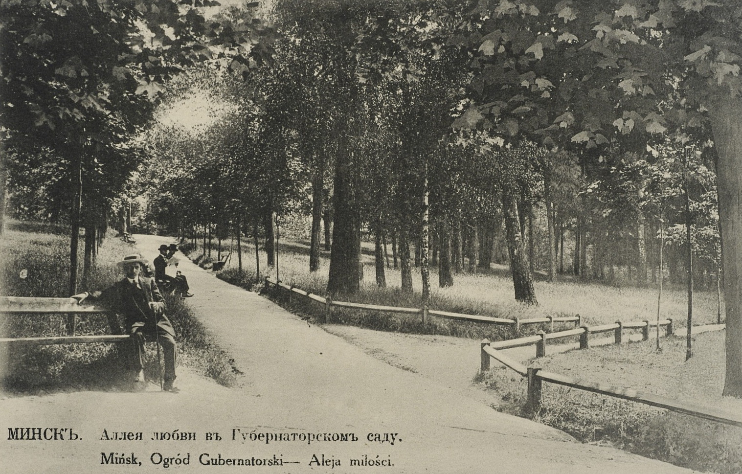 Minsk city (Rissian empire, Belarus, Minsk region) -- a central city garden, before 1917 Ad